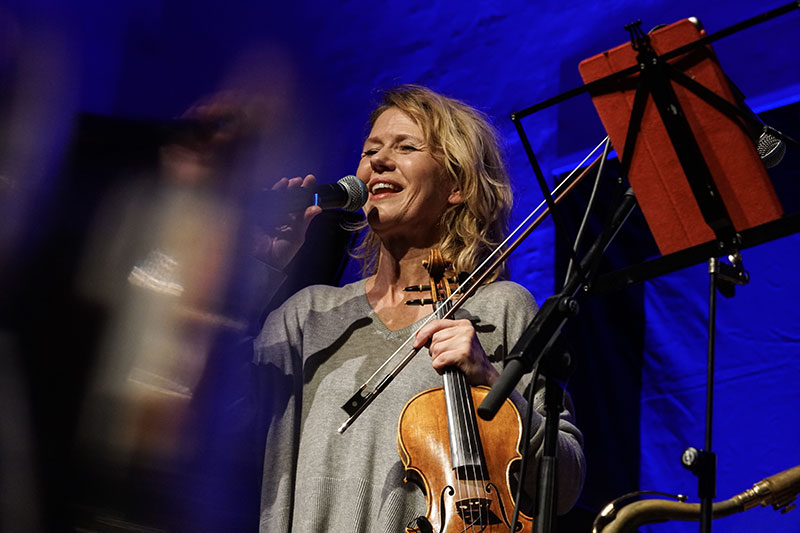 Line Kruse in Denmark 2018